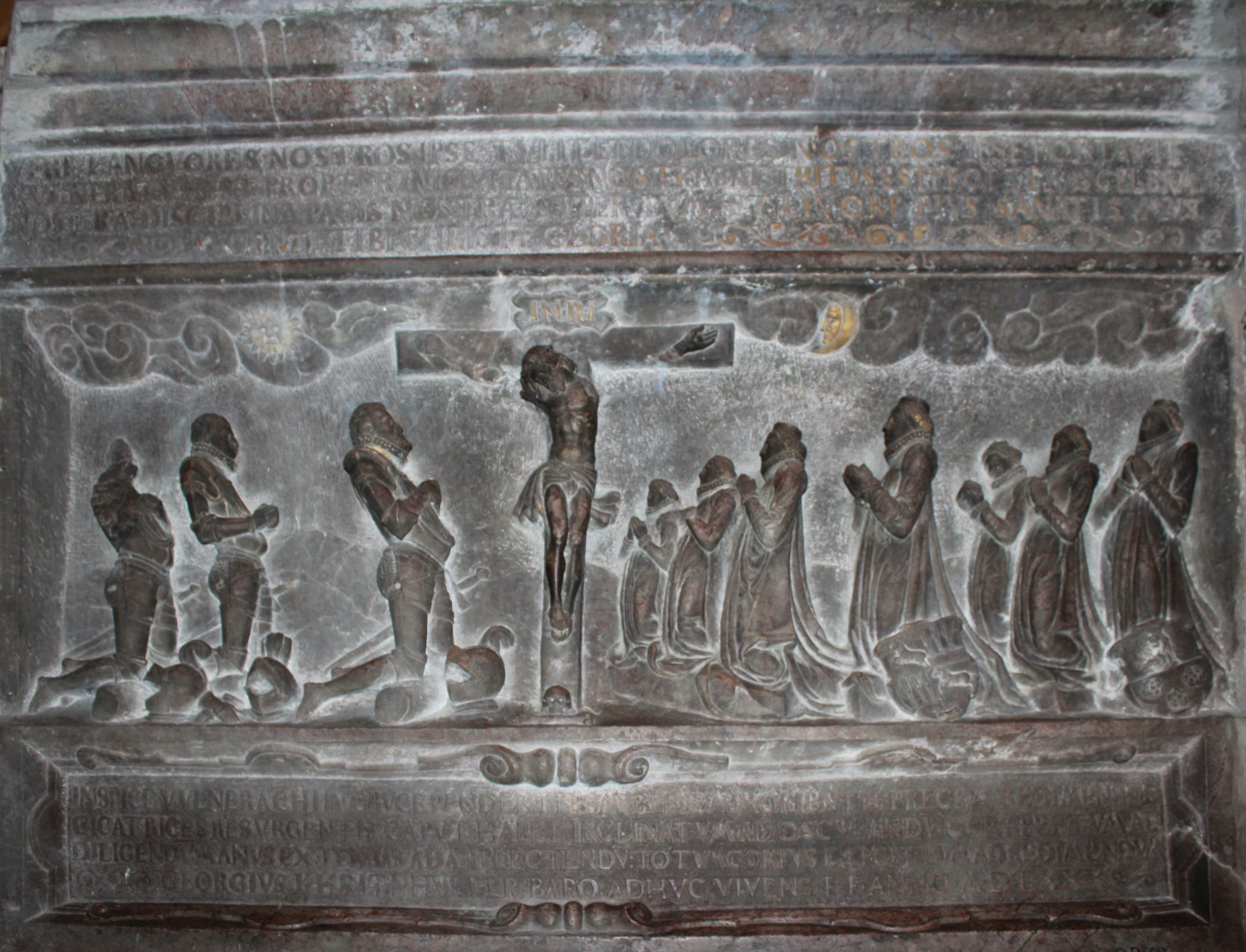 Parish church St. Jakob in Villach - epitaph